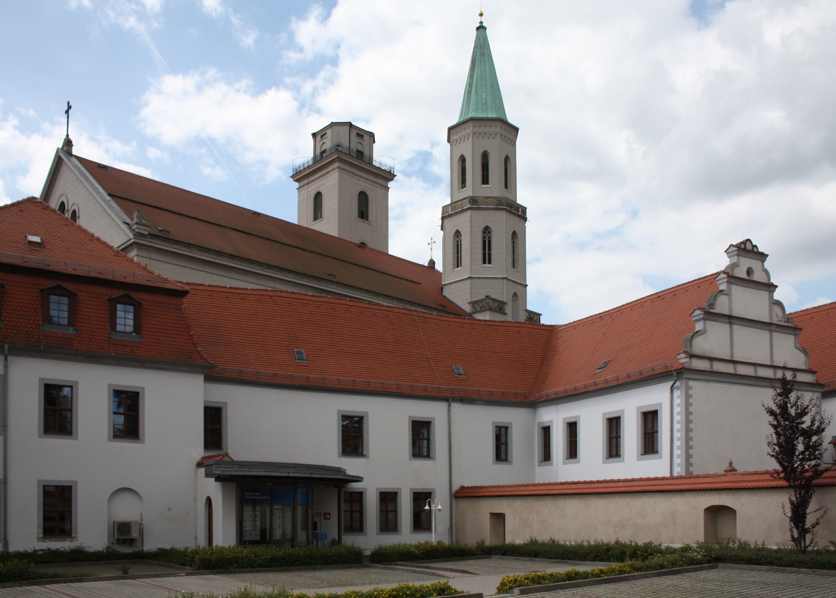 Zittau, Church of Saint John